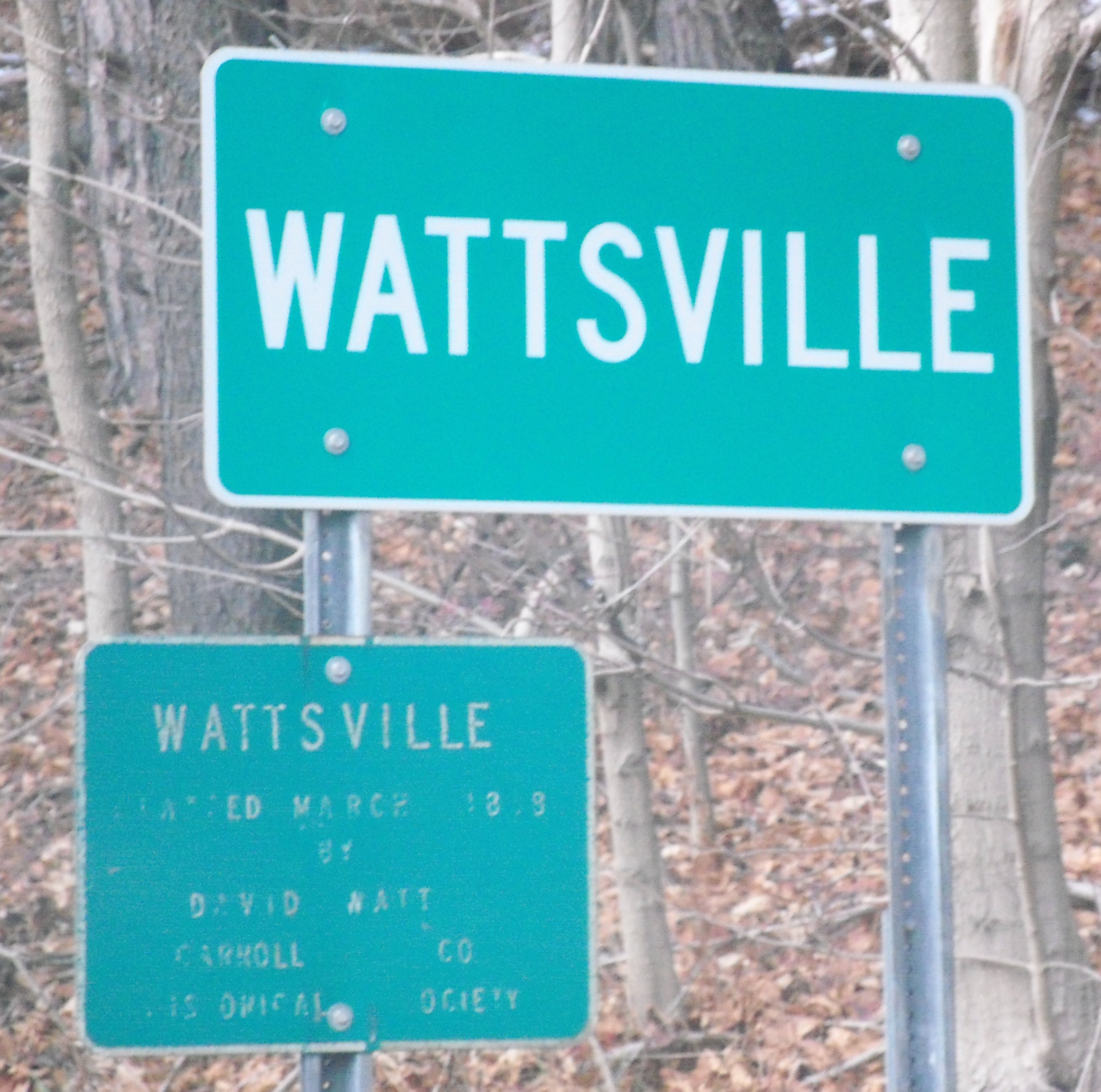 road signs on Ohio 524 announcing Wattsville.